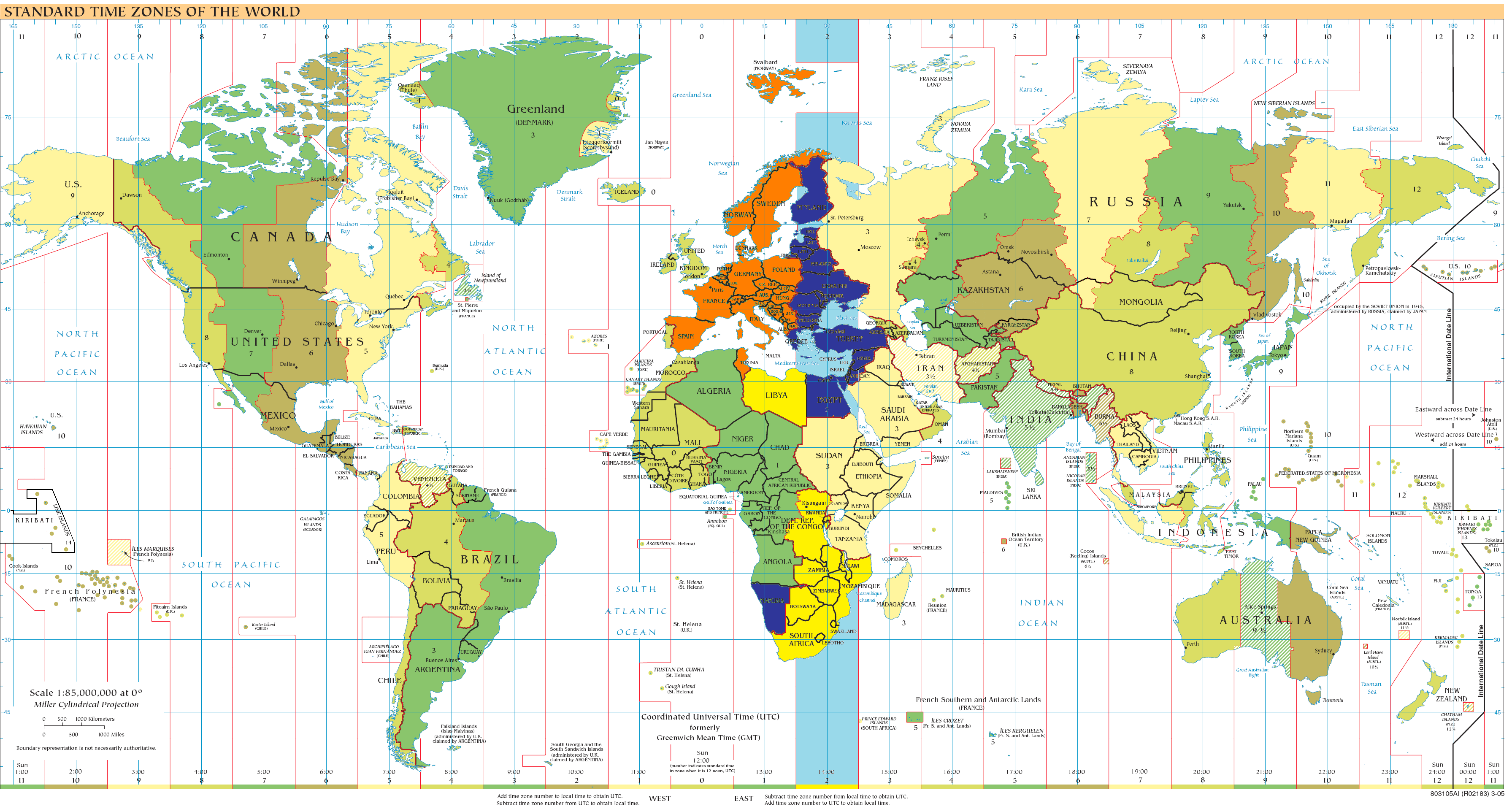 Copy of Timezones2008.png highlighting UTC+2 Dark Blue: UTC+2 during Northern Winter/ Southern Summer Orange: UTC+2 during Northern Summer/ Southern Winter Yellow: UTC+2 all year round Light Blue: UTC+2 Sea Areas